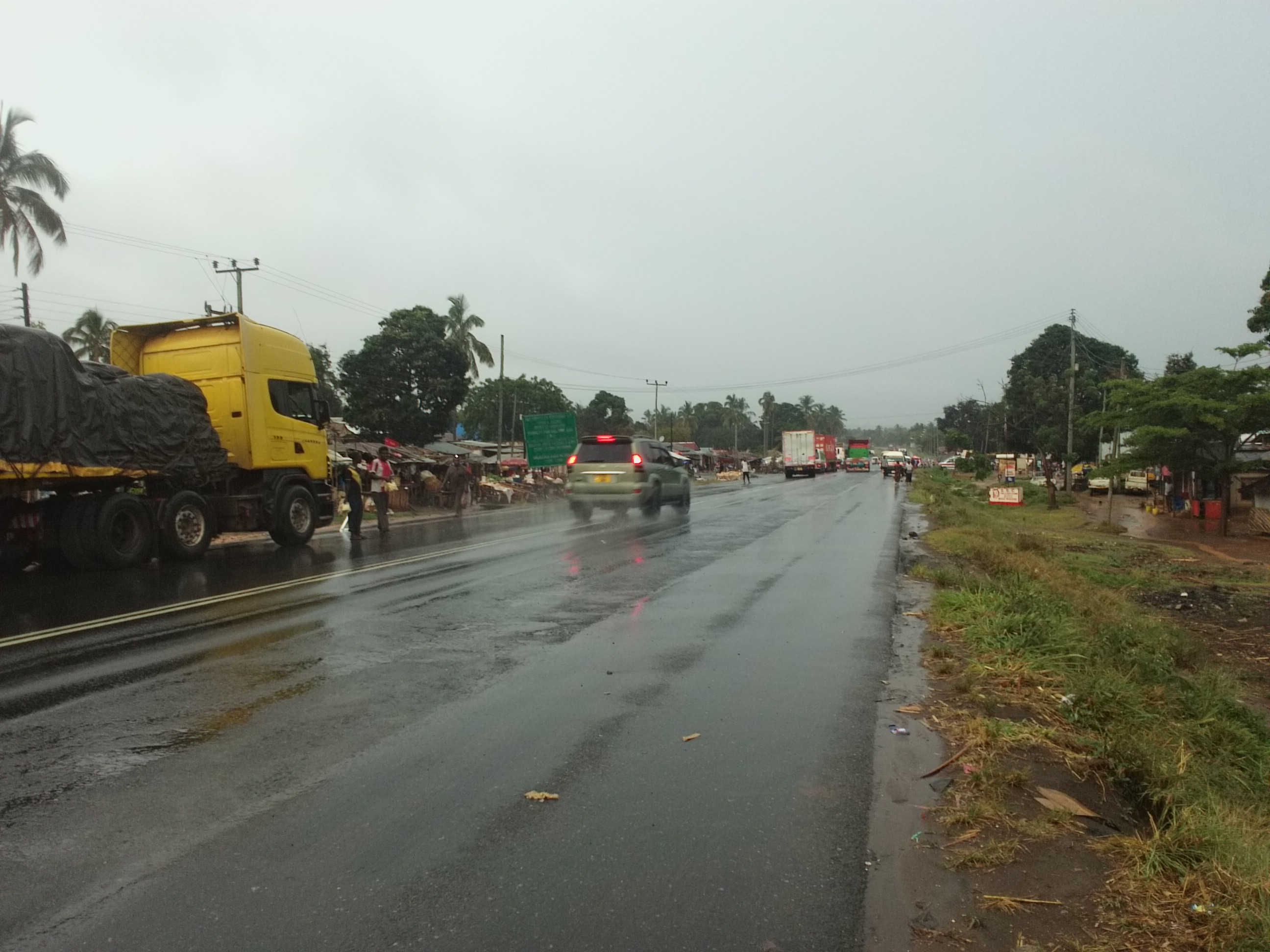 Mikese road in Tanzania, the Place is very busy because of it nature of business. This is an image with the theme "Africa on the Move or Transport" from: Tanzania